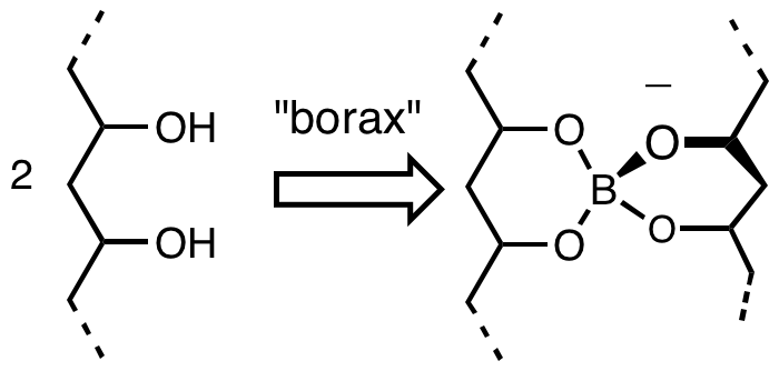 corrected image of borate ester proposed for "slime"